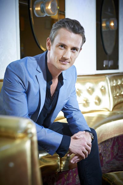 Conductor Alexander Shelley